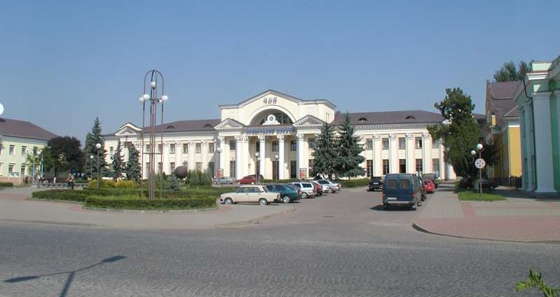 Chop center 2006 with the railway station